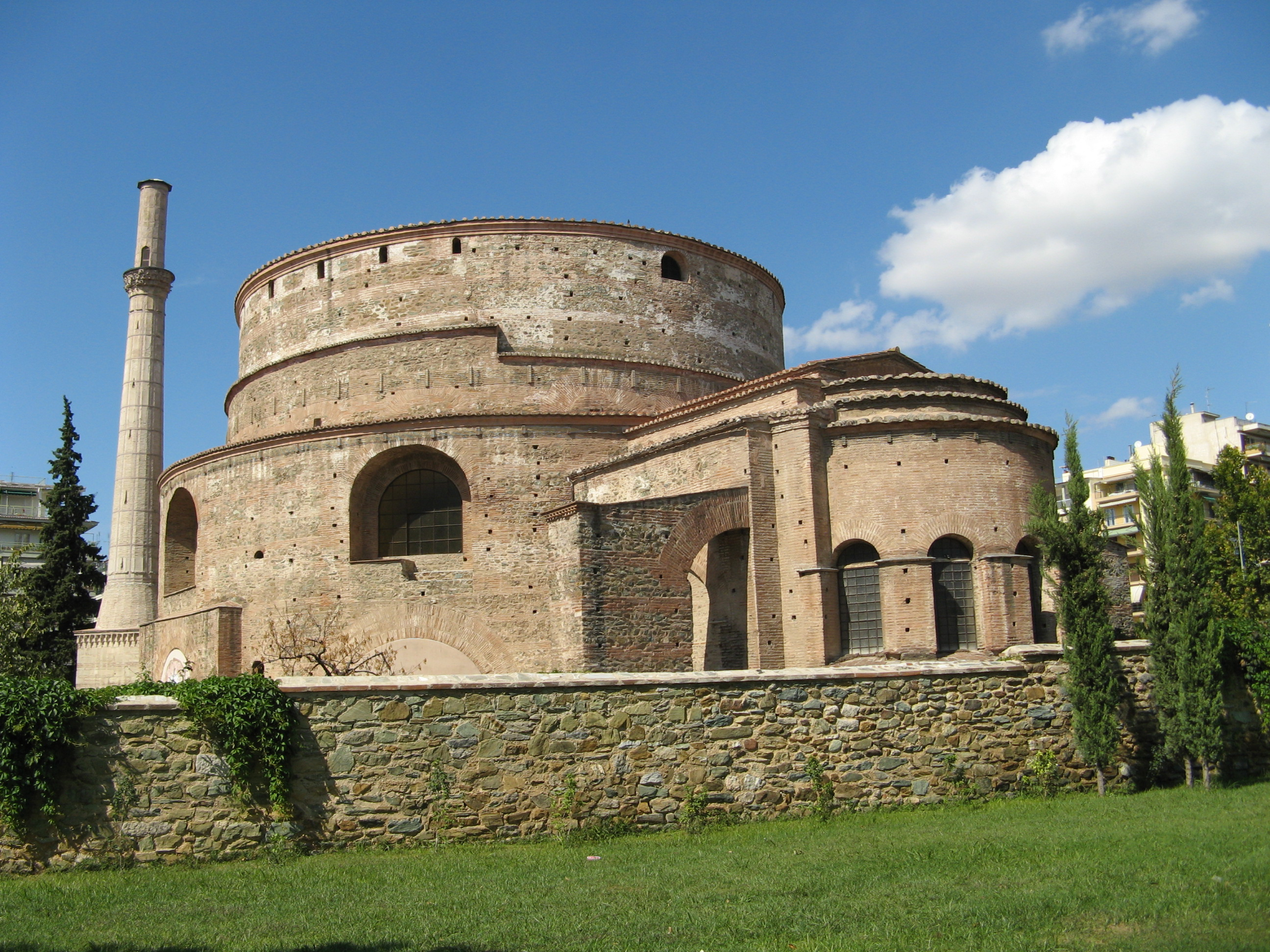 Rotonda, the church of Saint George in Thessaloniki, Greece